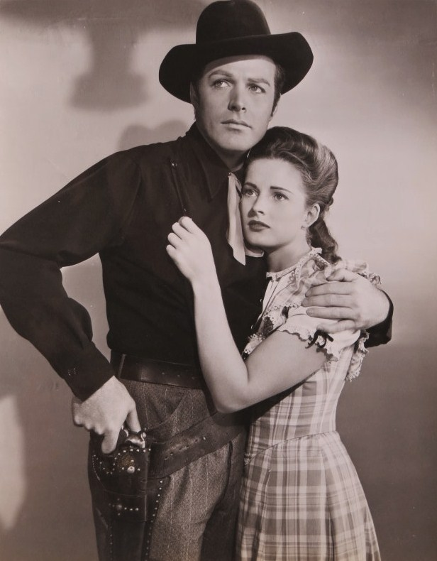 Glenn Langan and Coleen Gray in Fury at Furnace Creek (1948) - publicity still (cropped : see source).